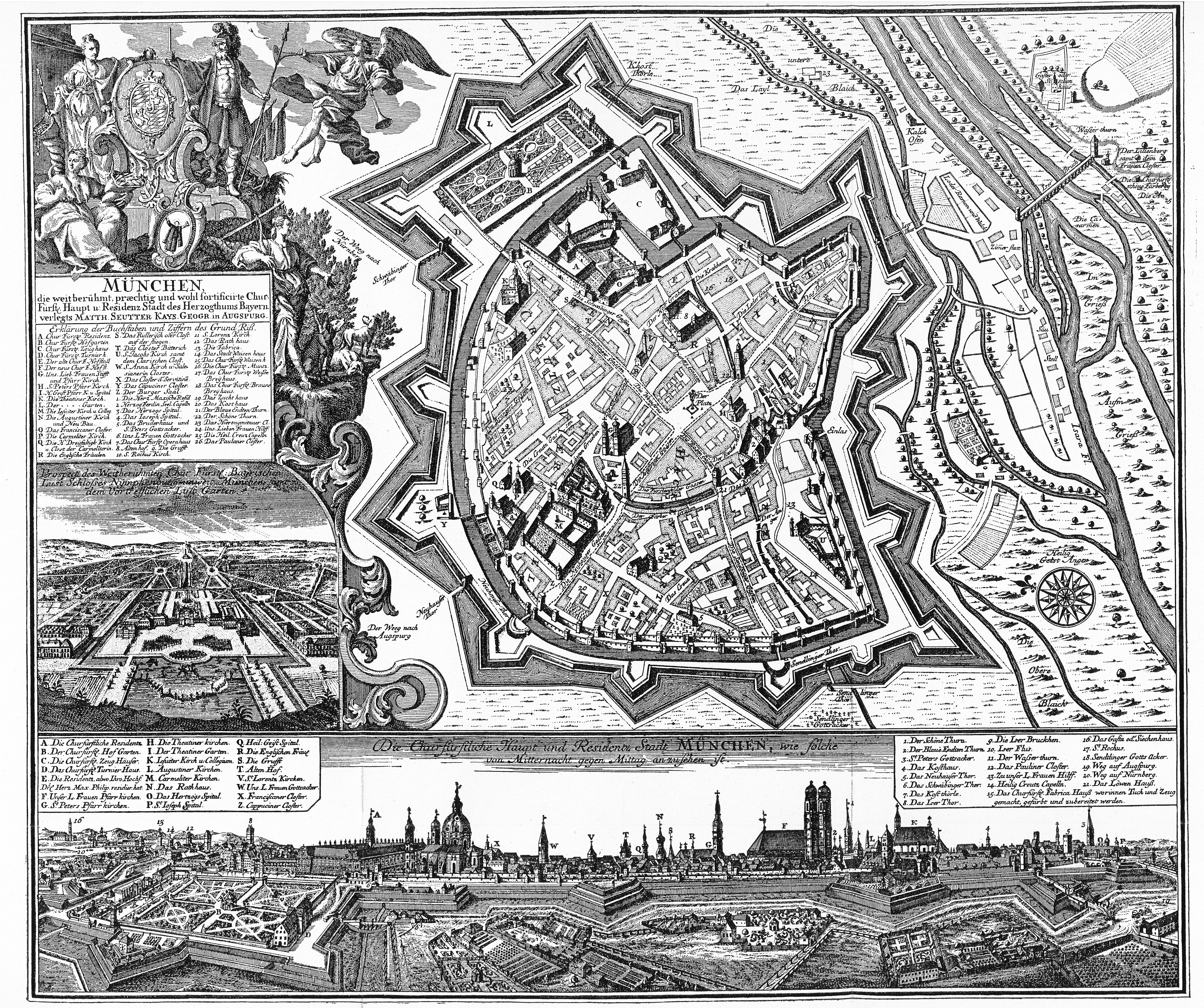 Map over Munich (München) 1740.